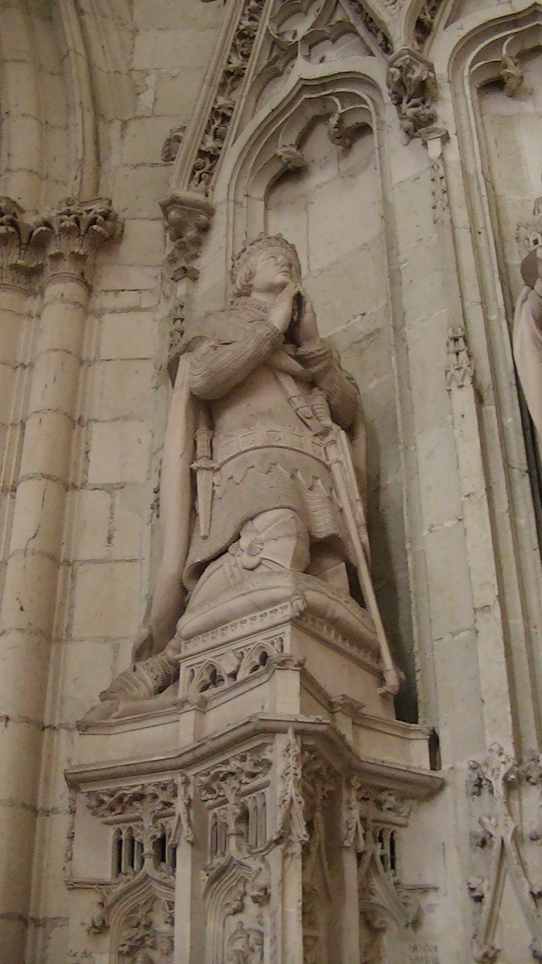 Statue de Jean V, Duc de Bretagne, Nantes, Cathédrale Saint-Pierre-et-Saint-Paul.